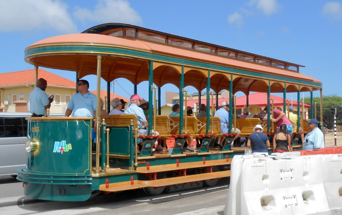 Oranjestad, Aruba, has a new, free streetcar/trolley (tram) service. It has open, battery-powered cars. The line runs from the cruise ship port on Caya Betico Croes (now renamed Main Street), a shopping street which runs diagonally inland. That street was turned into a pedestrian area, dedicated to the trolley. The line was ceremonially opened at the end of 2012, but not begin regular operation until February 2013.